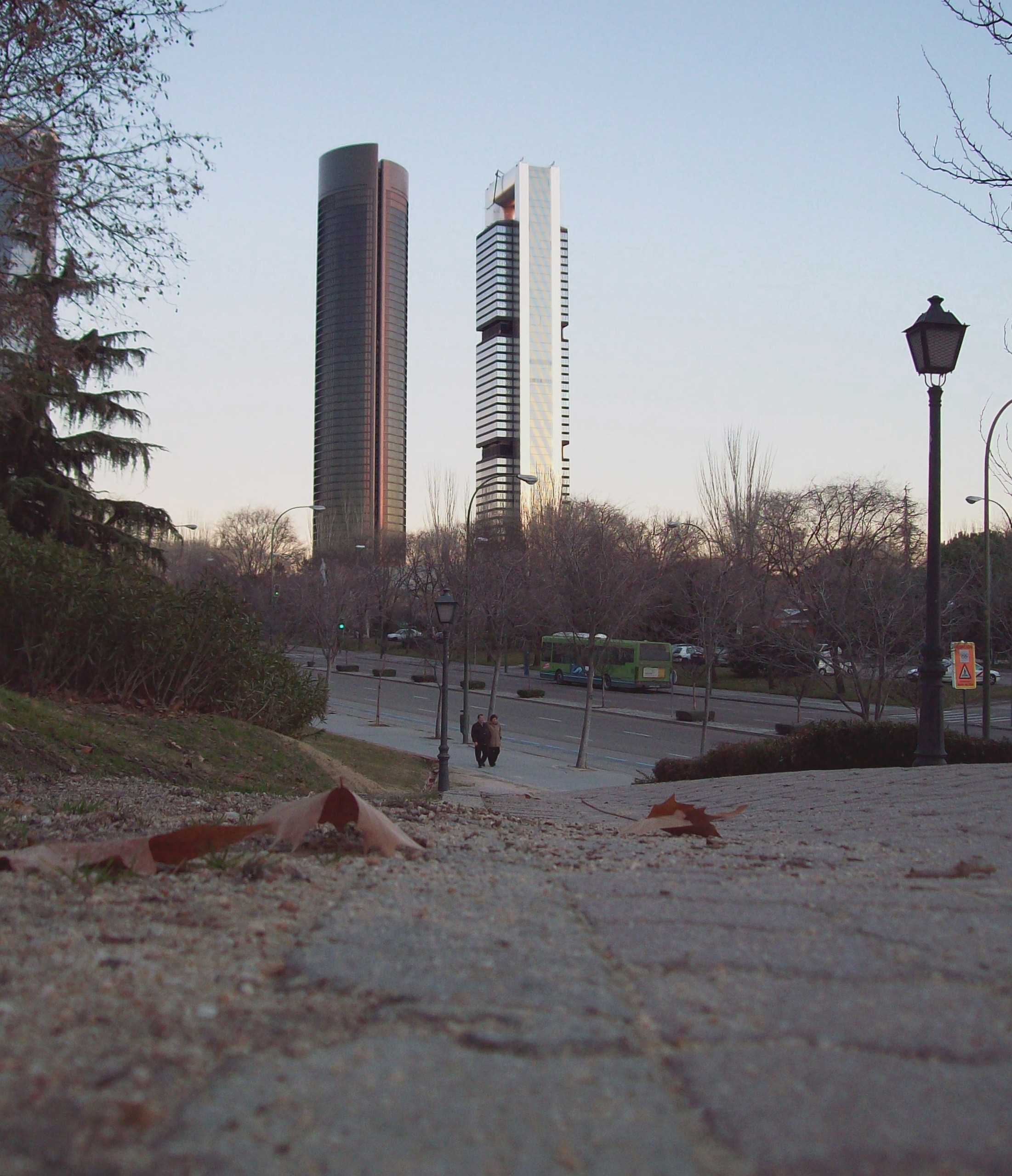 View from Parque Norte (a park) in Fuencarral-El Pardo district in Madrid (Spain). In the background, Torre Sacyr Vallehermoso (left) and Torre Caja Madrid (right), in Cuatro Torres Business Area (CTBA).